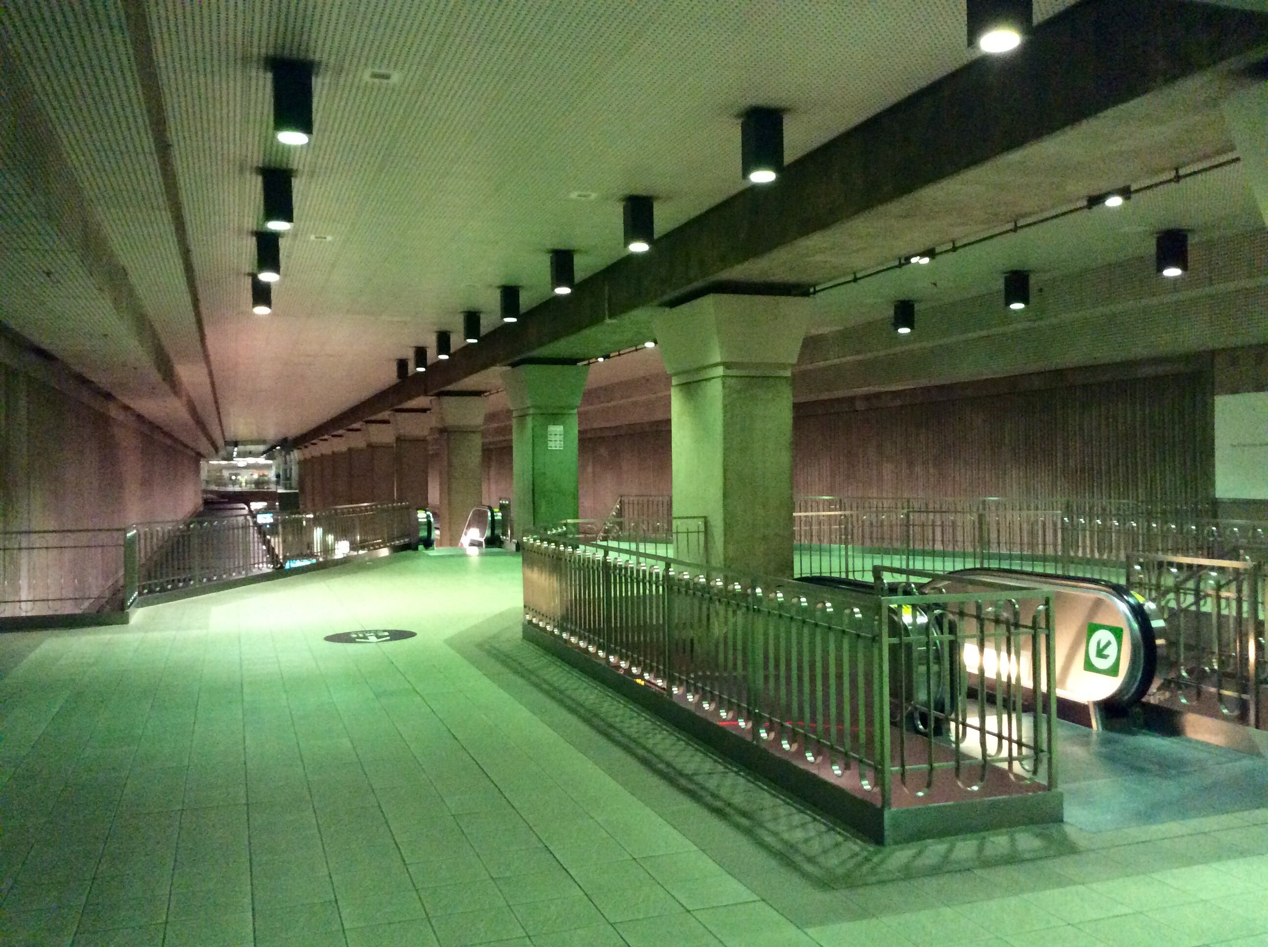 The upper floor view of Union Station Station.